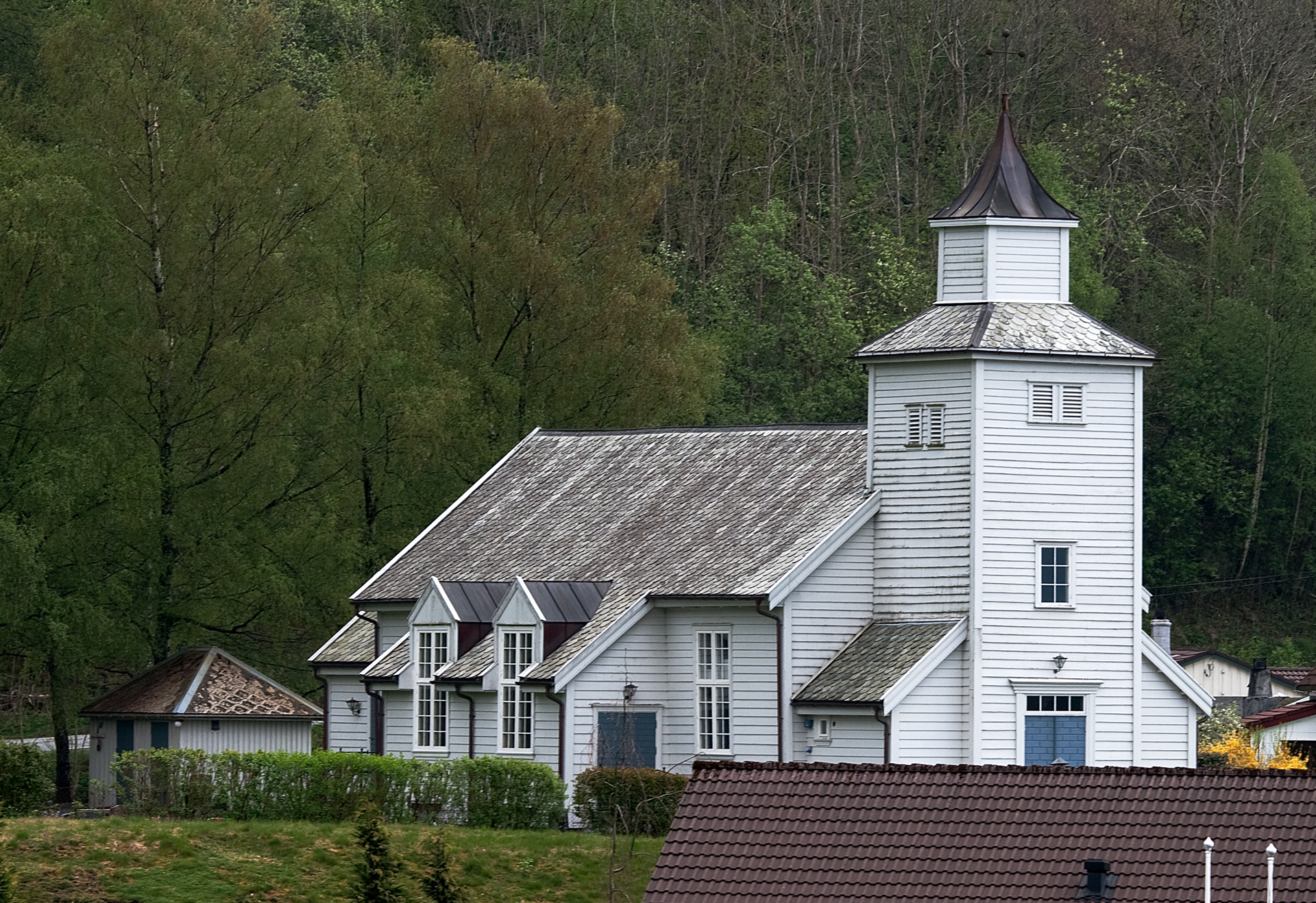 Picture of Erfjord kyrkje.